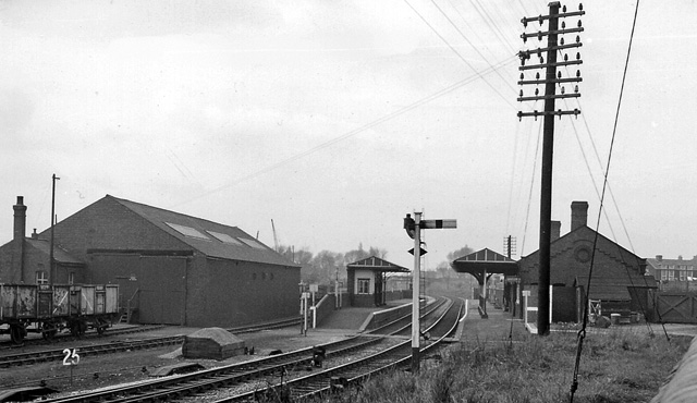 Bloxwich Station. View northward, towards Rugeley; ex-LNW Walsall - Rugeley (Trent Valley) line. This station was closed on 4/1/65 when the line was closed under the Beeching recommendations, but the line remained open for freight and in 1989 a passenger service was restored, Bloxwich station being reopened on 17/4/89 and on 2/10/90 another (new) station was opened at Bloxwich North.